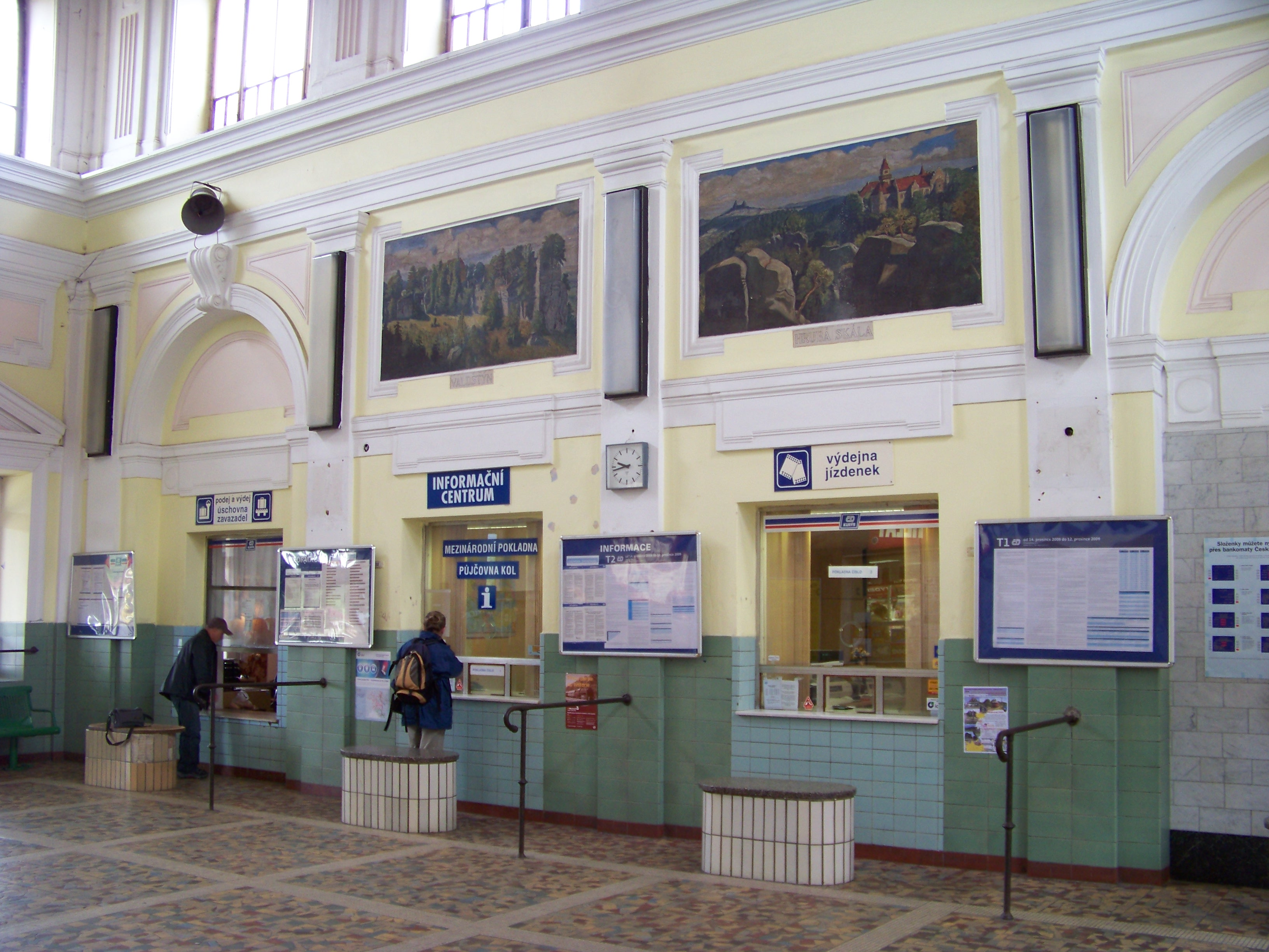 Turnov, Liberec Region, the Czech Republic. A train station. (Pictures from Karel Vik.)